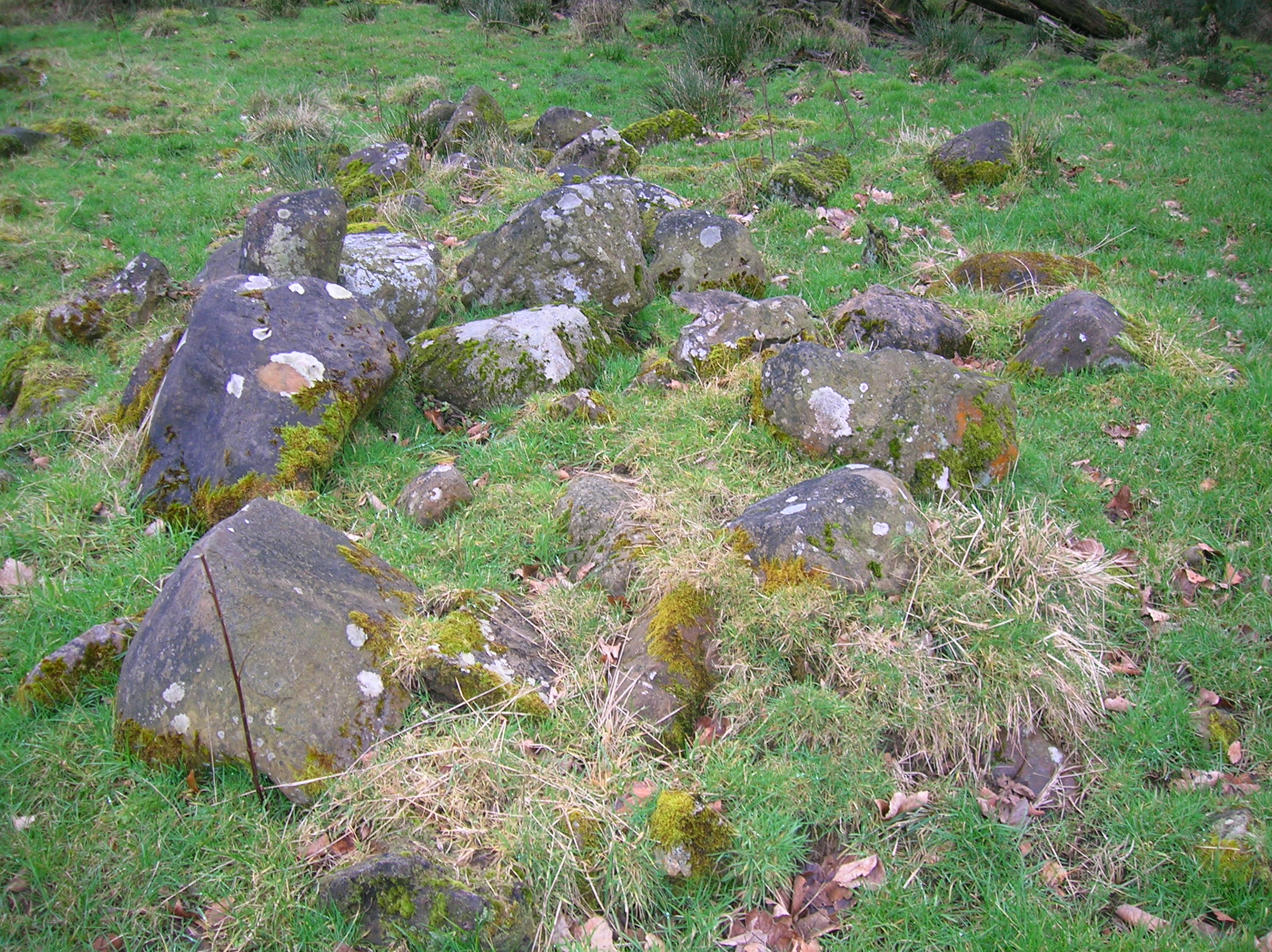 A clearance cairn formed by mechanised extraction. Eglinton, North Ayrshire, Scotland